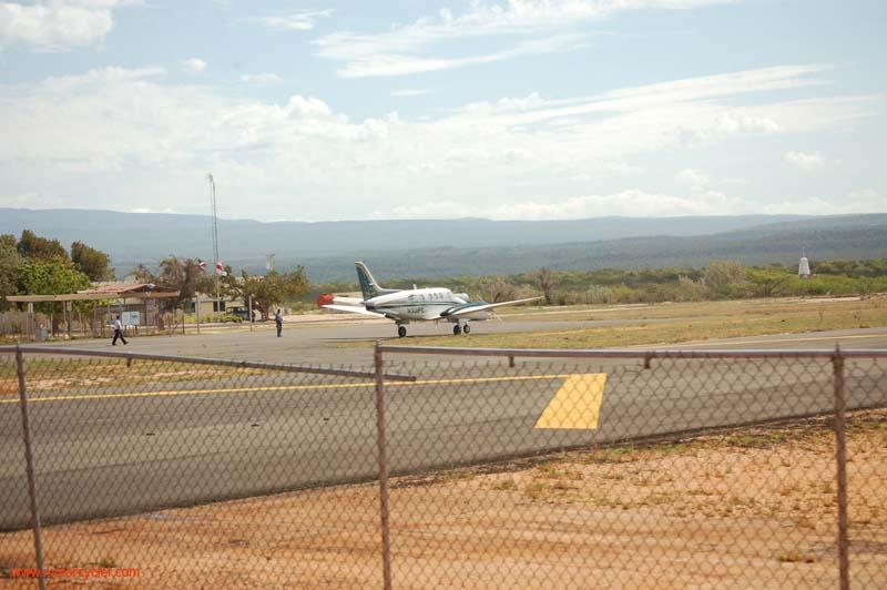 Beechcraft 100 King Air of Caribair at CBR operating a flight to JBQ Airpot Internacional Cabo Rojo, Pedernales, Dominican Republic